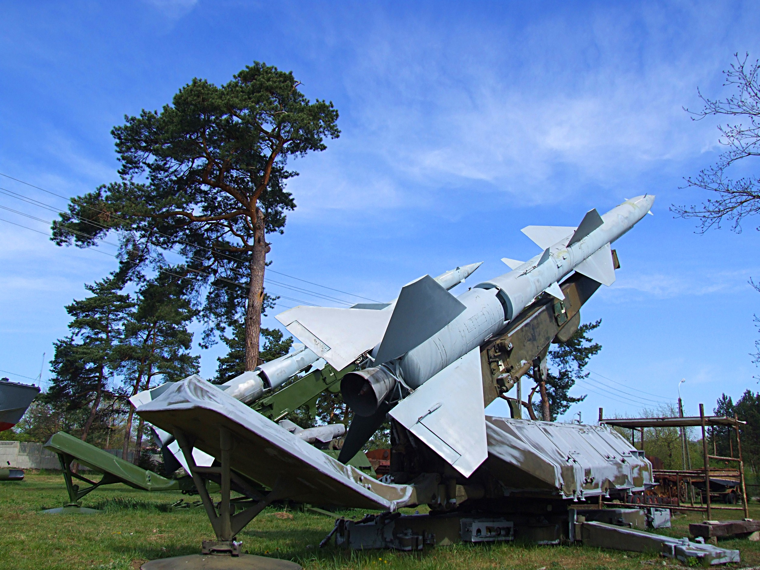 This picture was taken in The White Eagle Museum in Skarżysko-Kamienna